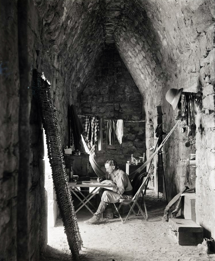 Photograph of Alfred Percival Maudslay at Chichen Itza, 1889.